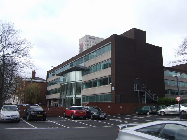 Teleperformance House (or 1 Duchess Place) The mid 1970s office block was transformed with a new entrance lobby extending to second floor level to open the core of the building. A blue plaque records that JRR Tolkien lodged in Duchess Place during his teenage years. Places in the area such as the twin towers of Perrots Folly and the Edgbaston Waterworks may have inspired his books, Lord of the Rings and The Hobbit.